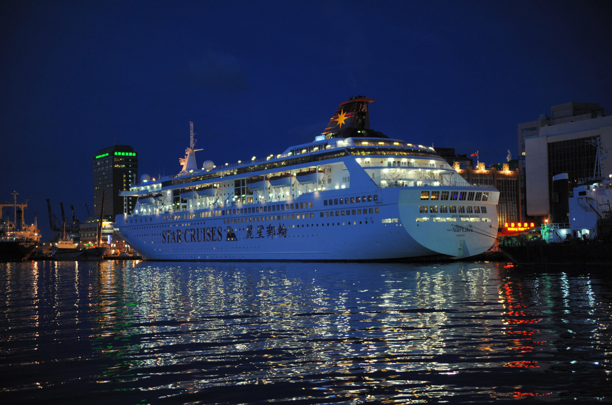 SuperStar Libra, one of the cruiser belongs to Star Cruises, parking in Keelung Harbor, the homeport of the ship.